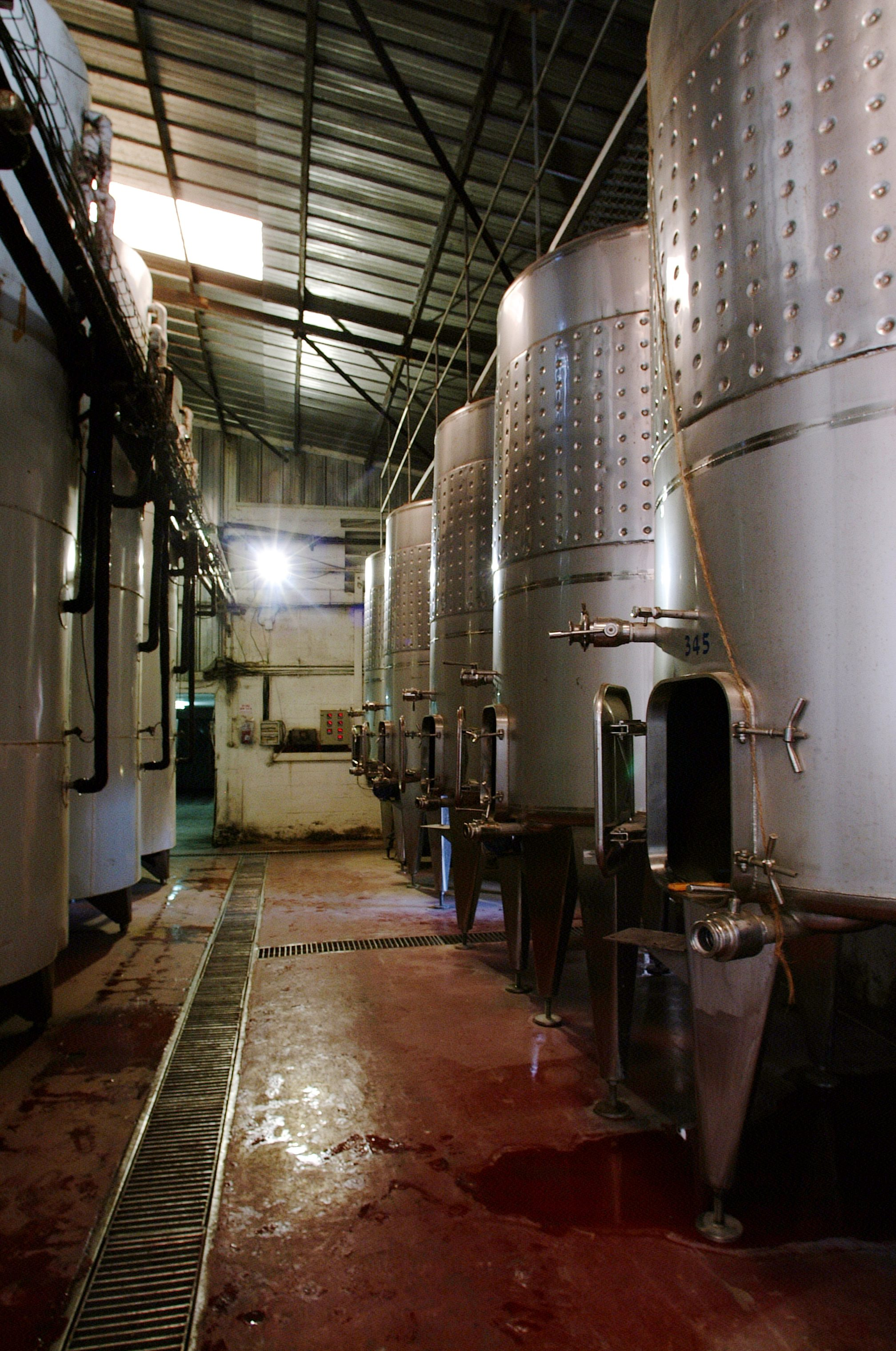 The Binyamina Winery. In the photo, the fermentation tanks. יקב בנימינה. מיכל התסיסה